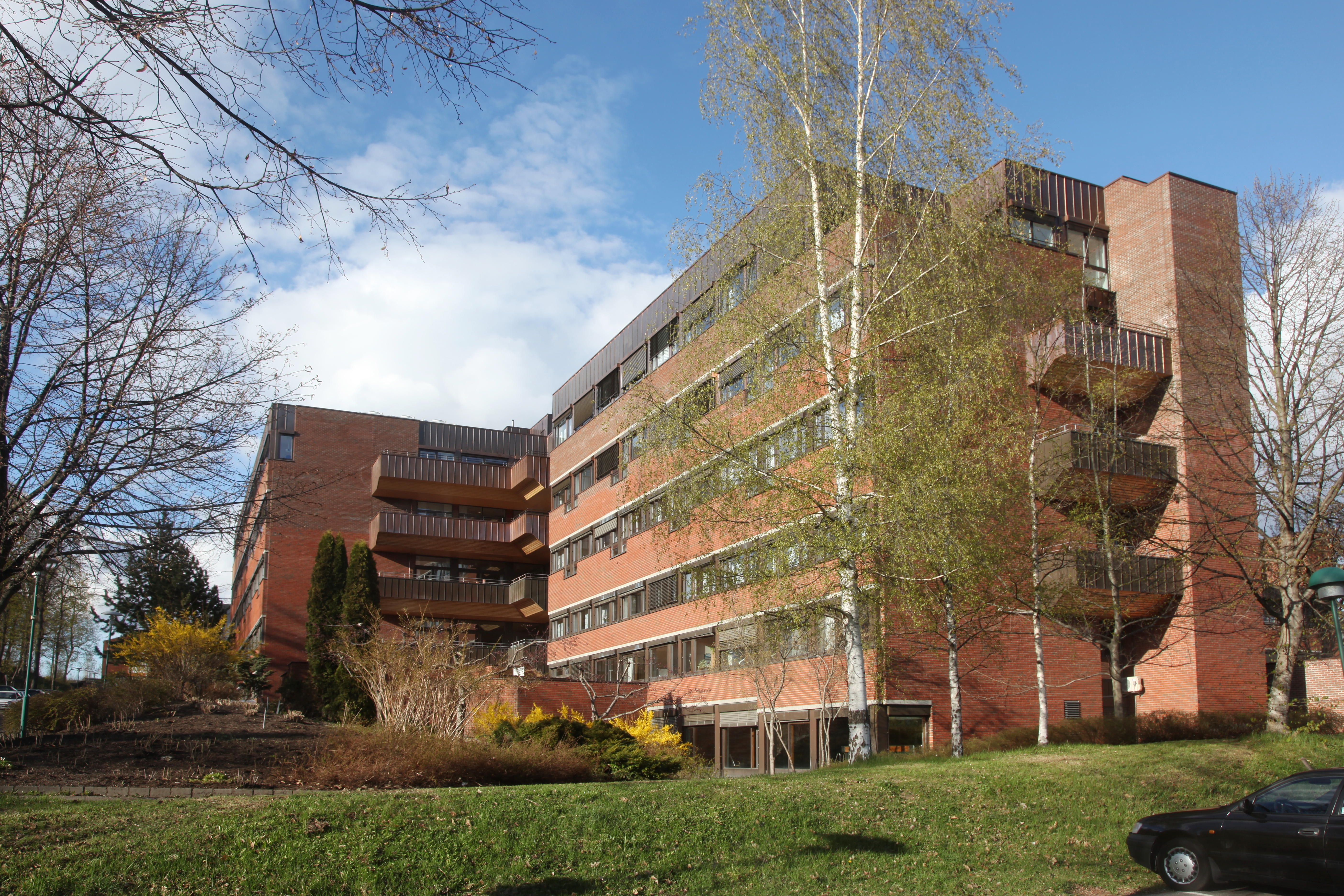 Diakonhjemmet hospital